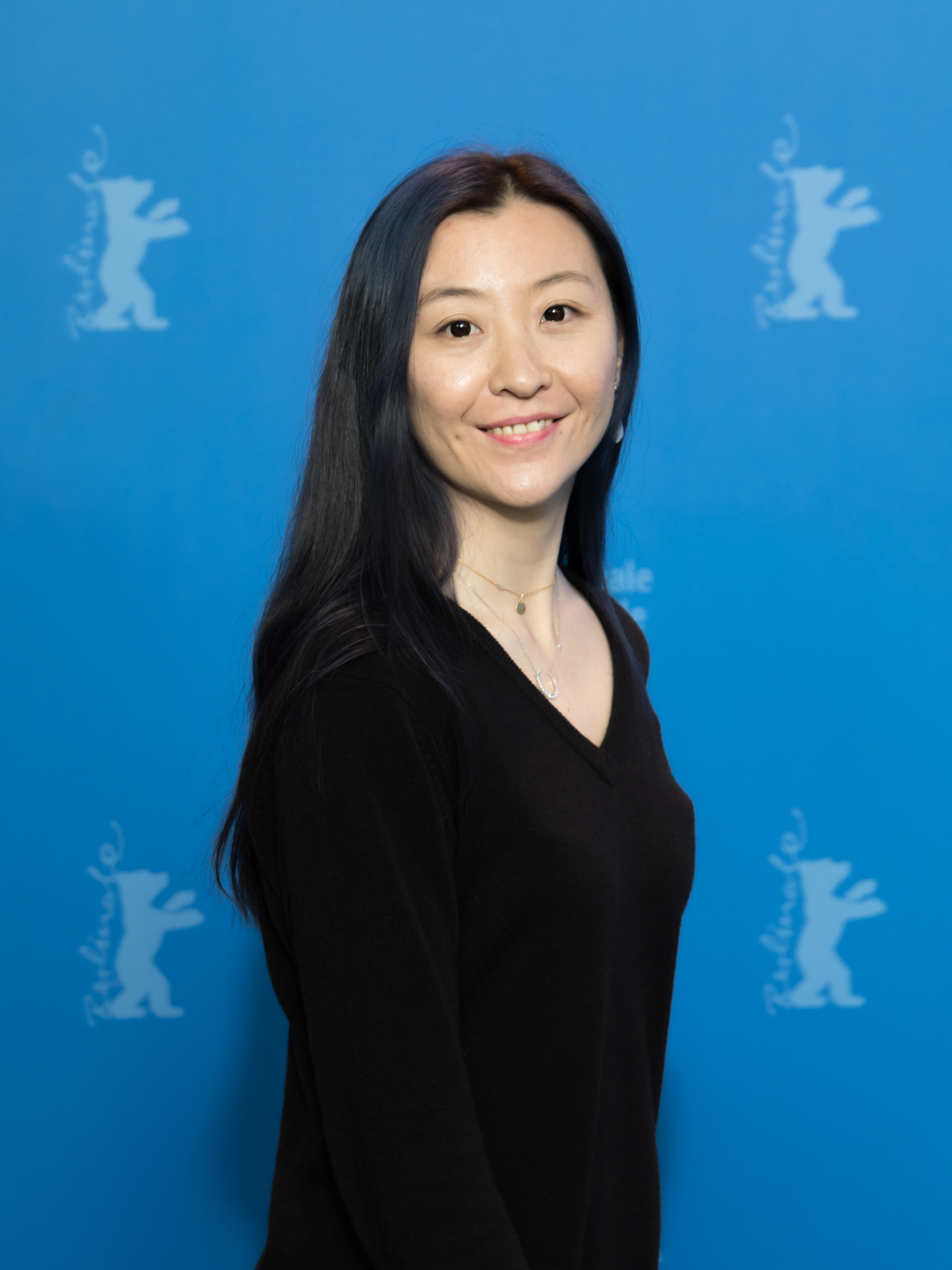 Yang Mingming at the Berlinale 2018